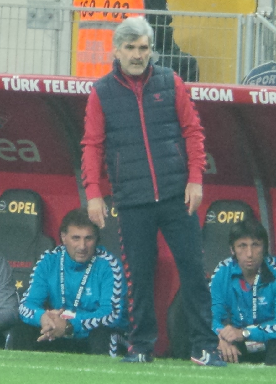 Uğur Tütüneker against his old team G.S.